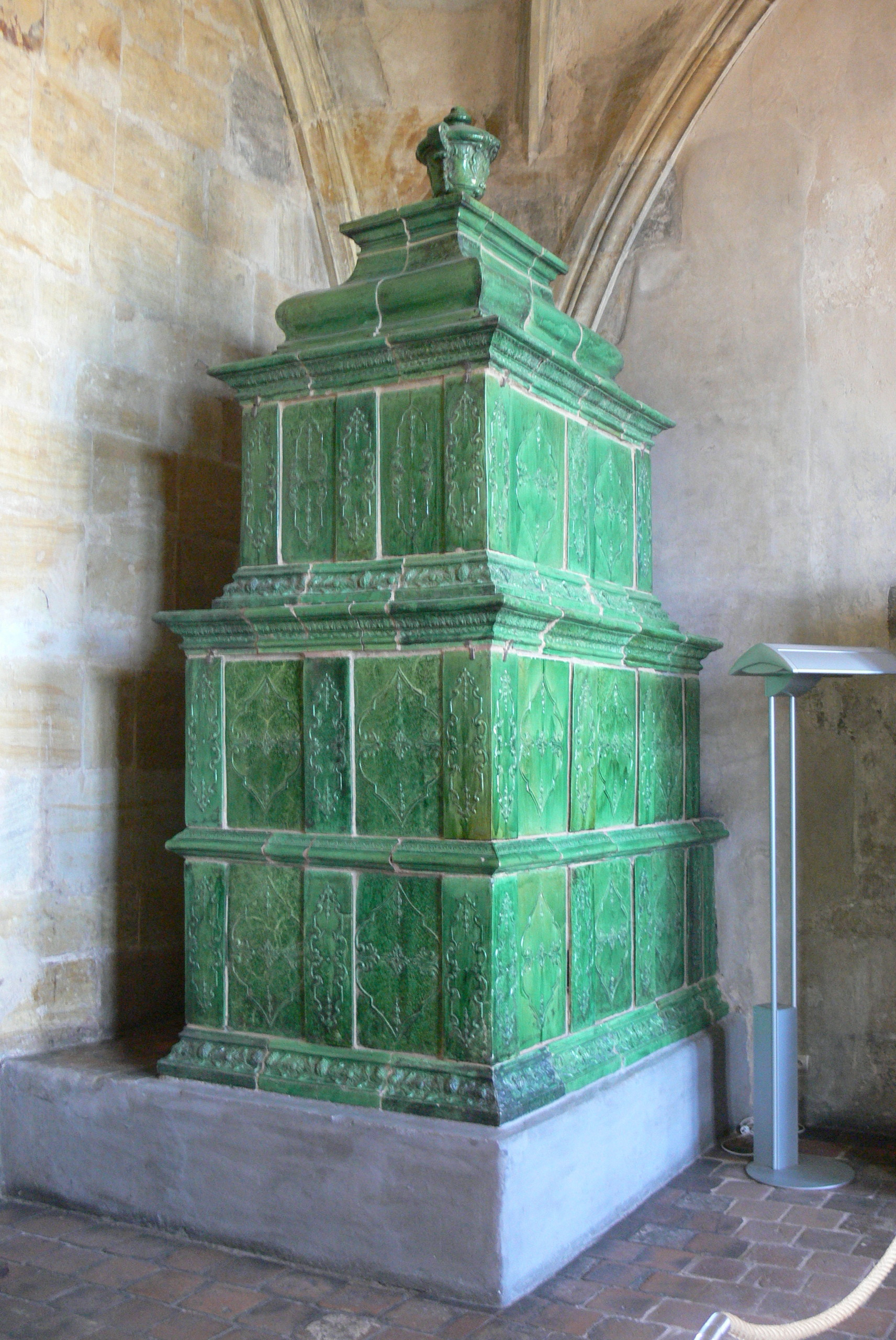 Royal Bohemian Chancery ( Old Royal Palace, Prague castle ). Tiled stove ( 17th century )